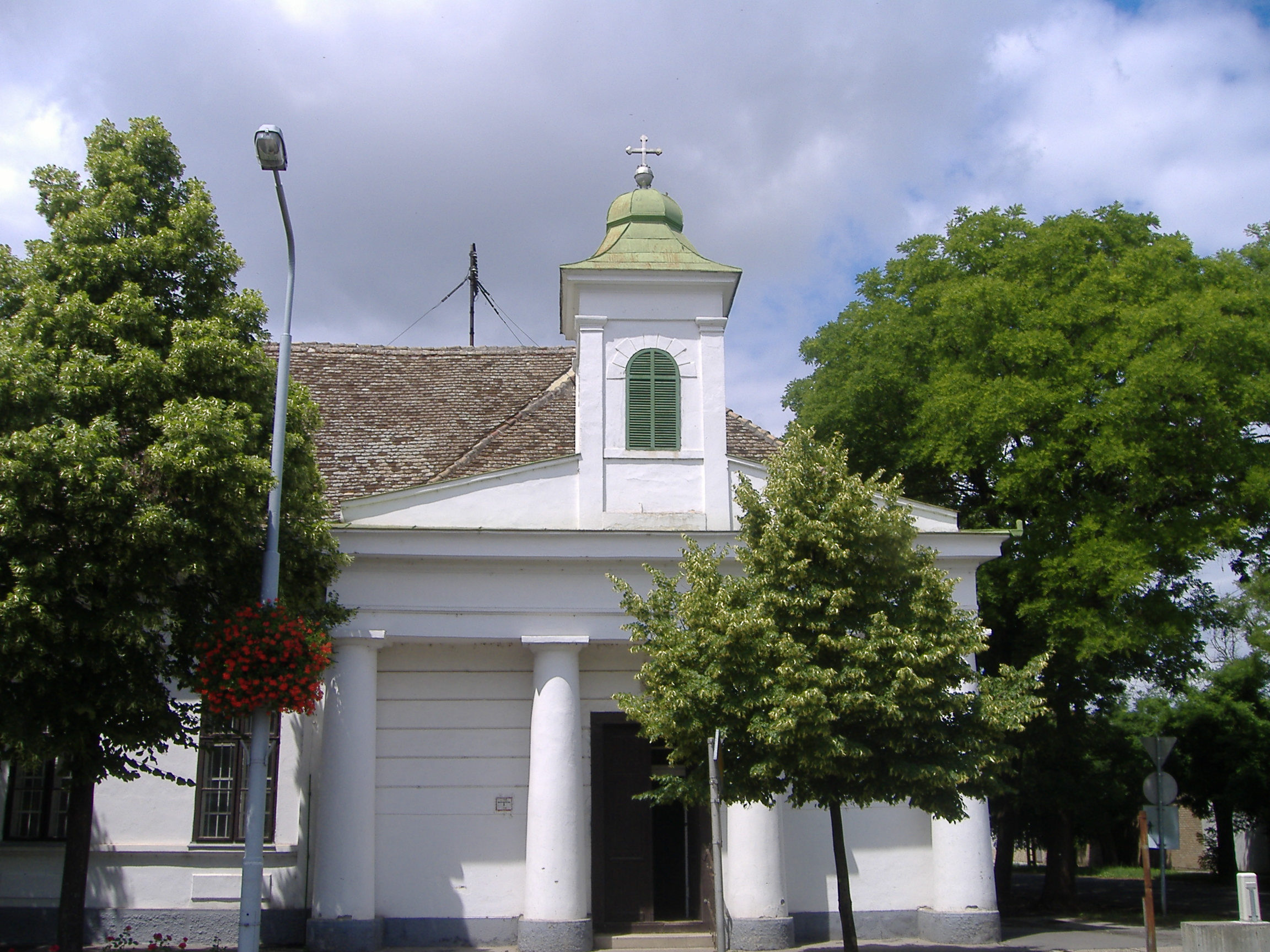 Former Bishop resort. Later internate, and student dormitory. Roman catholic chapel. Listed ID 3407. - Csanád vezér square, Makó, Hungary.